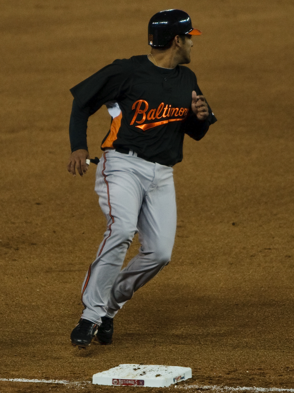 Robby Hammock of the Baltimore Orioles heads into third base during a 2009 exhibition game at Nationals Park in Washington, D.C.